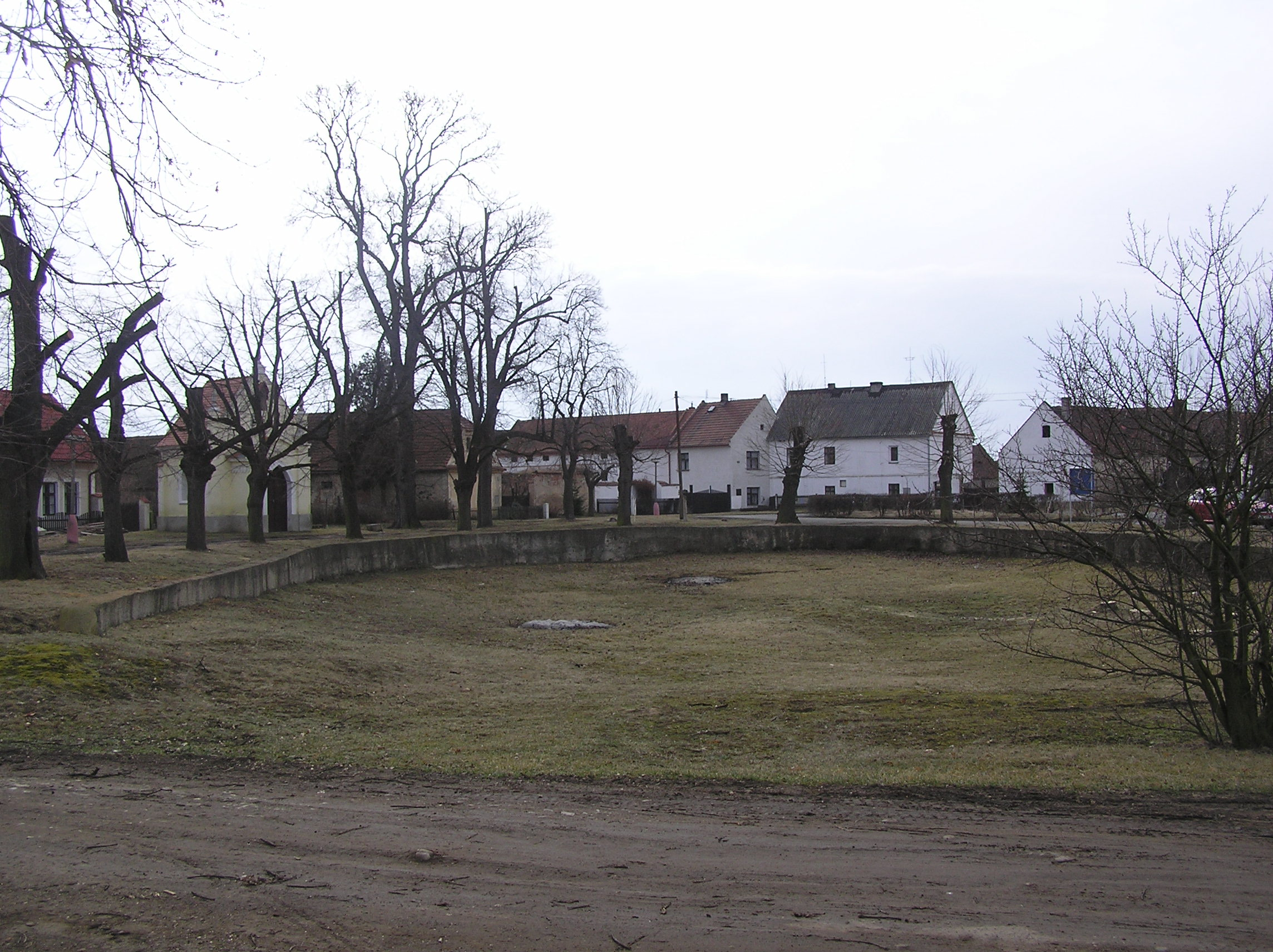 Village square in Číňov